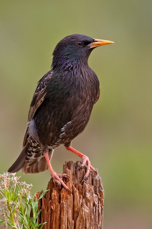 European Starling, Cabin Lake Viewing Blinds, Deschutes National Forest, Near Fort Rock, Oregon